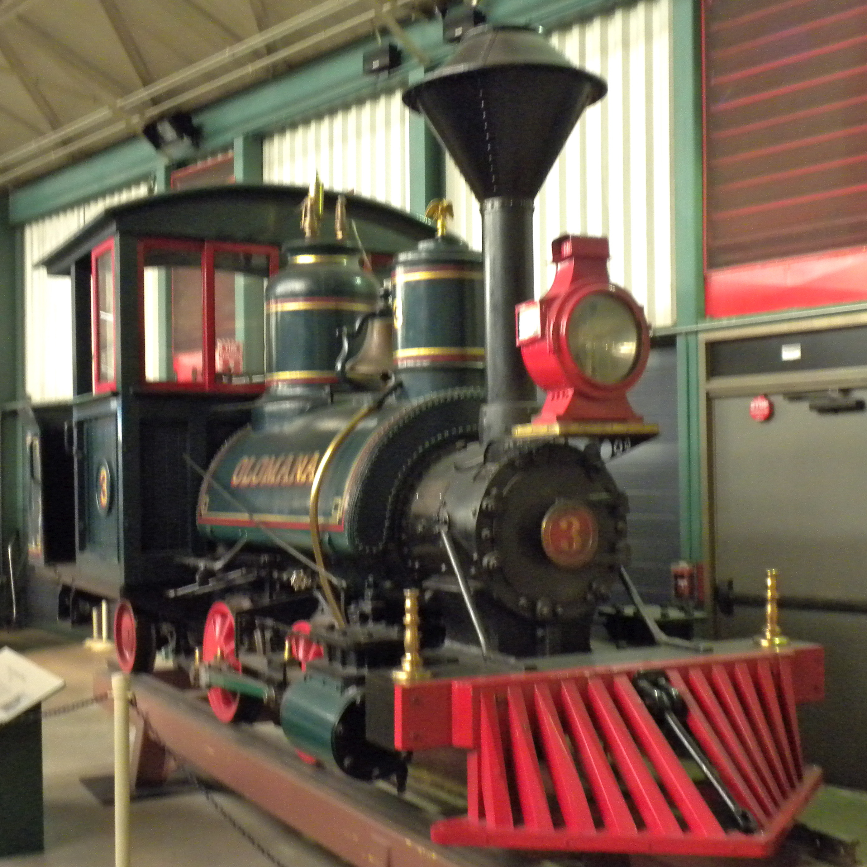 Olomana locomotive at the Railroad Museum of Pennsylvania. Locomotive was used in the sugar cane fields of Hawaii